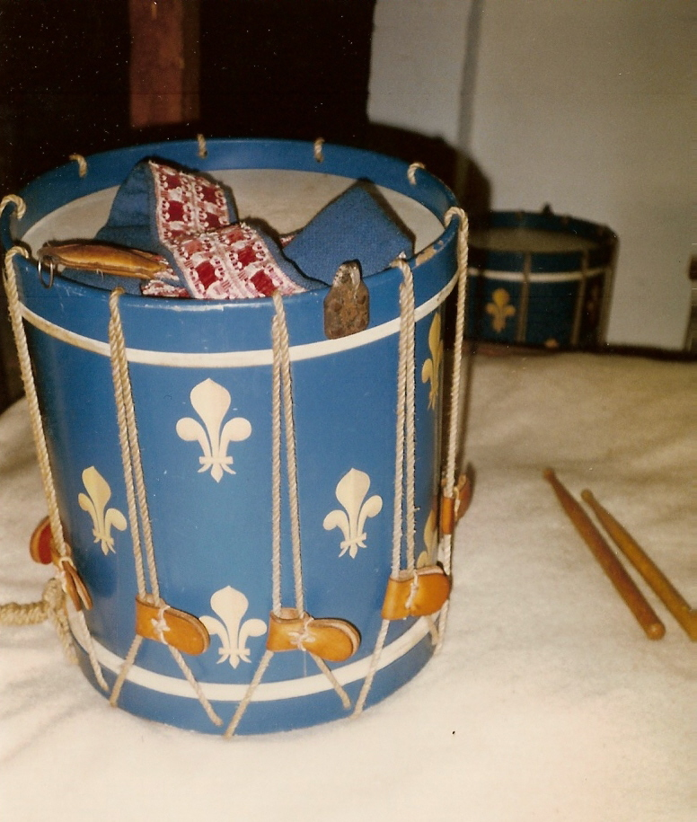 French military drum